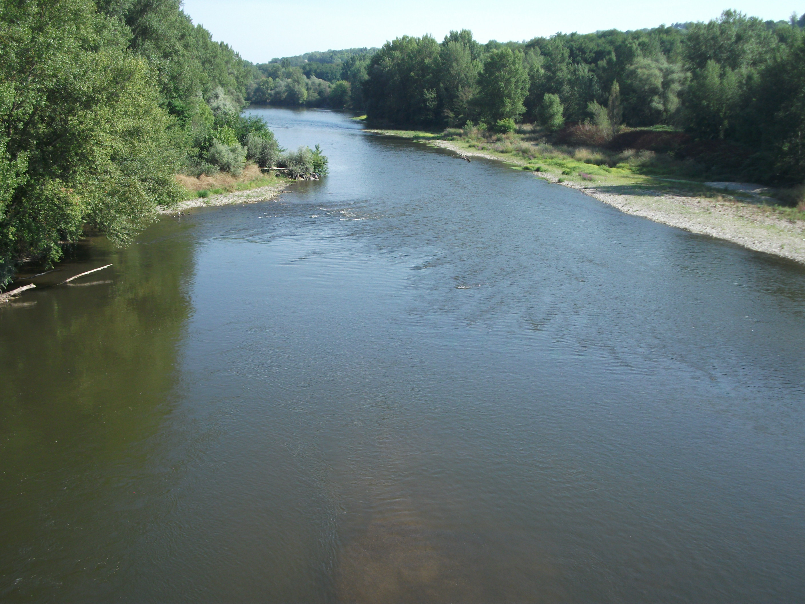 Allier River downstream bridge of departmental road 130 (Billy and Marcenat) [8590]